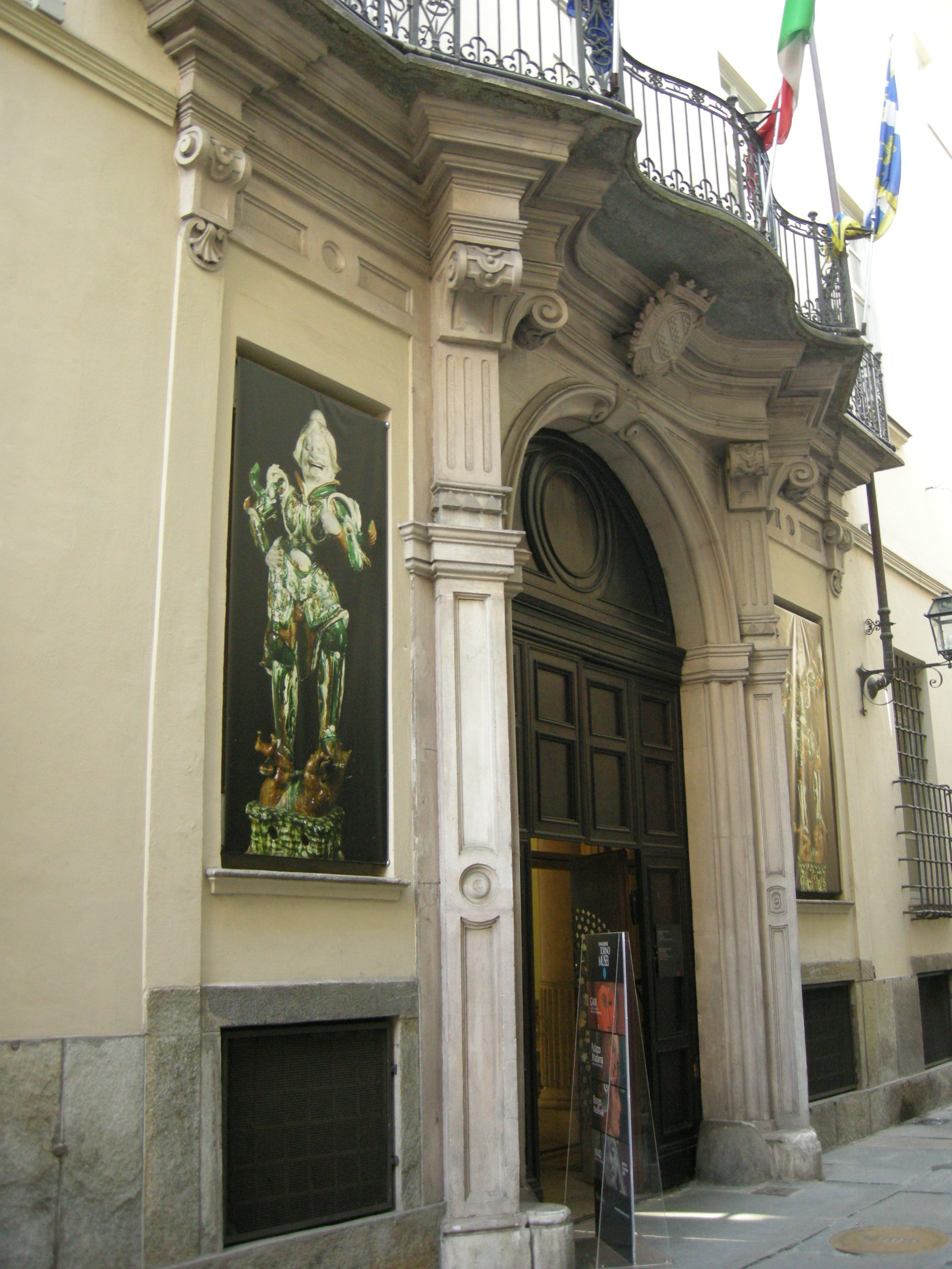 MAO, ingresso